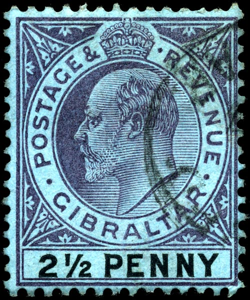 Gibraltar 2 1/2p stamp of 1903